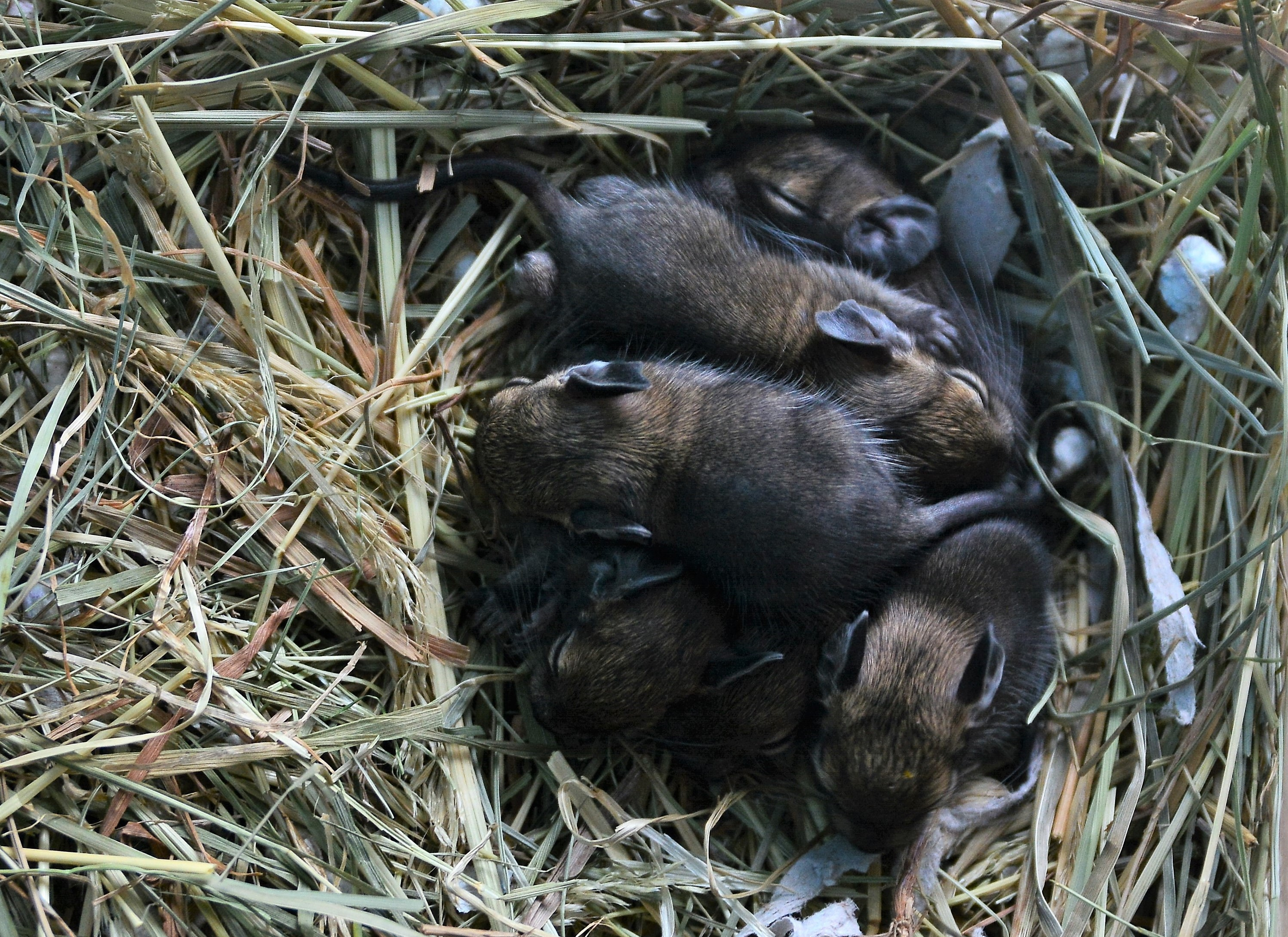 6 Degus 3 days OLD